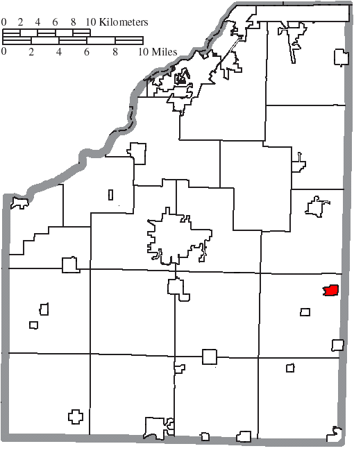 Map of the municipal and township boundaries of Wood County, Ohio, United States, as of the 2000 census, with the location of the village of Bradner highlighted. Township borders are shown only in unincorporated areas in order to differentiate incorporated and unincorporated areas more clearly.